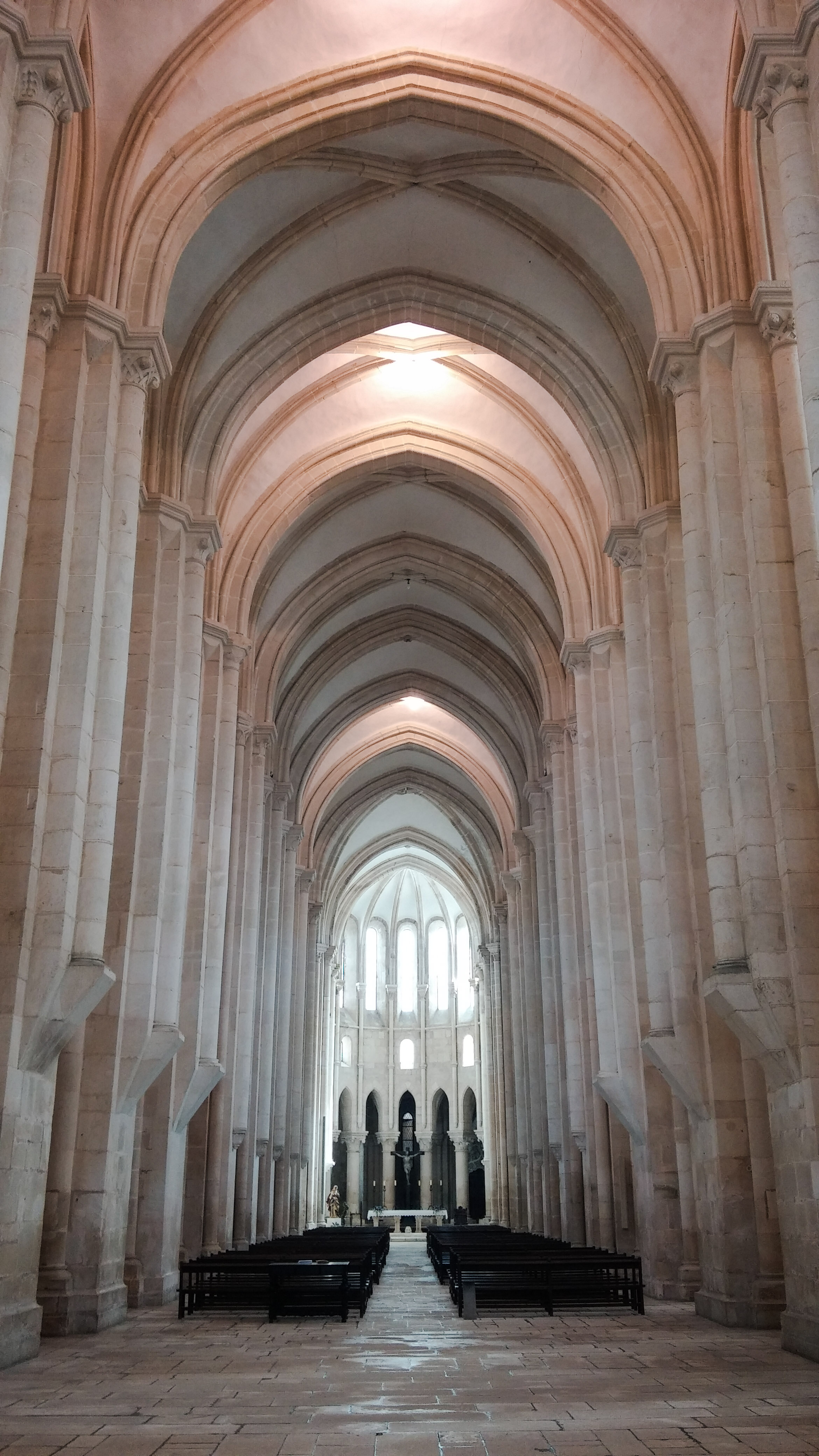 Inside the Alcobaca church